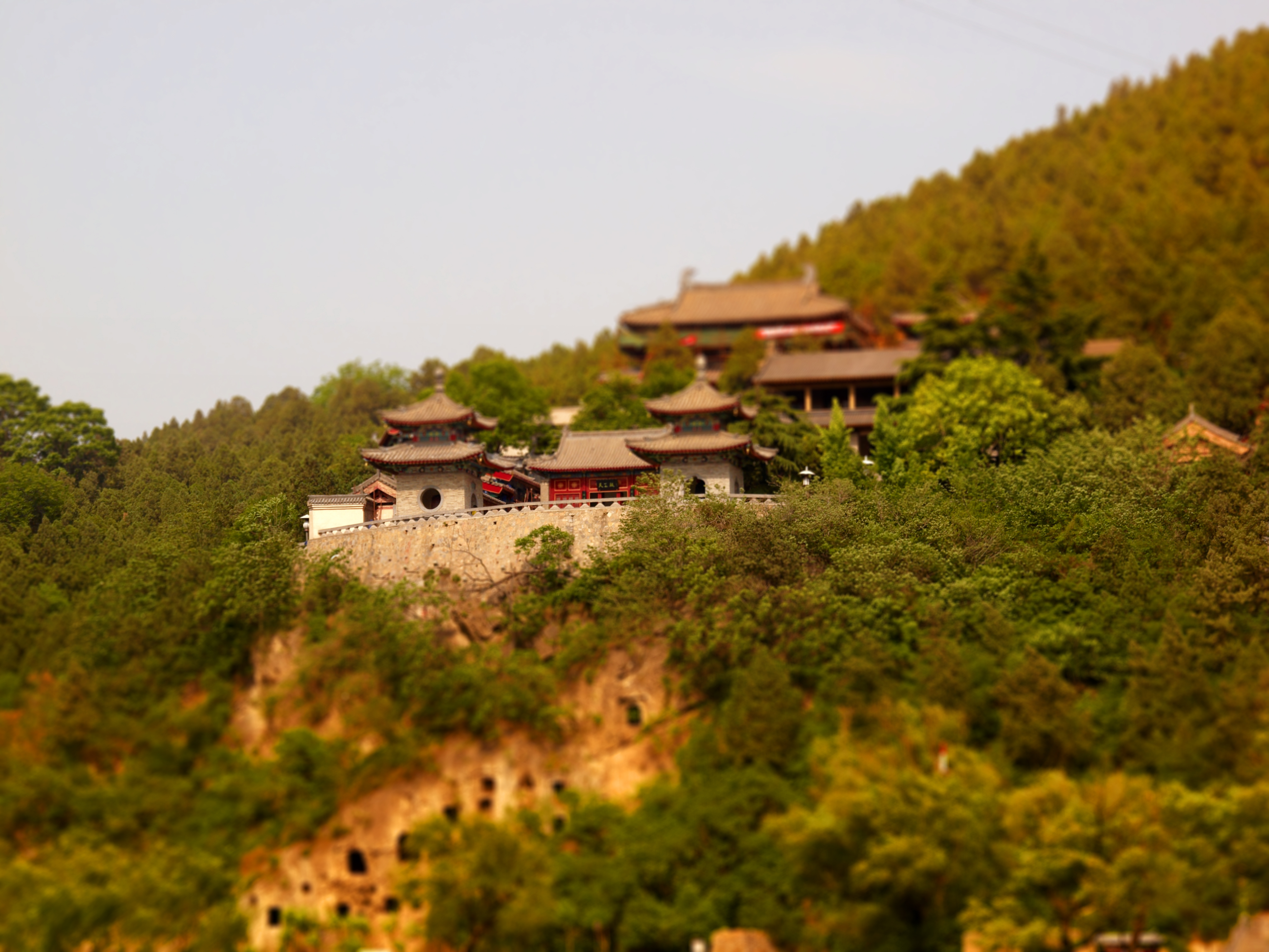 Xiangshan Temple was constructed during the Northern Wei Dynasty. The temple was built in 516 AD to house the monks who had come to Longmen to oversee the stone carvings. The temple was rebuilt in 687 AD by the Imperial court as a sacred burial place to honor the Indian monk and ascetic Dipokeluo.